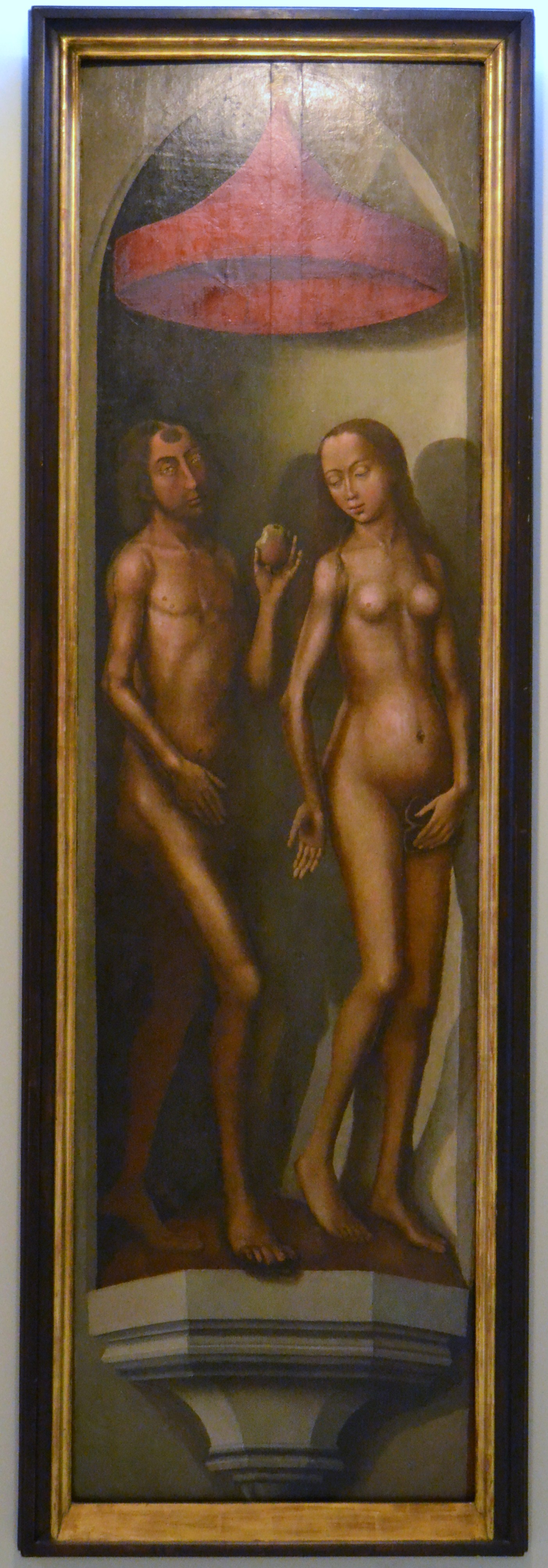 Adam and Eve